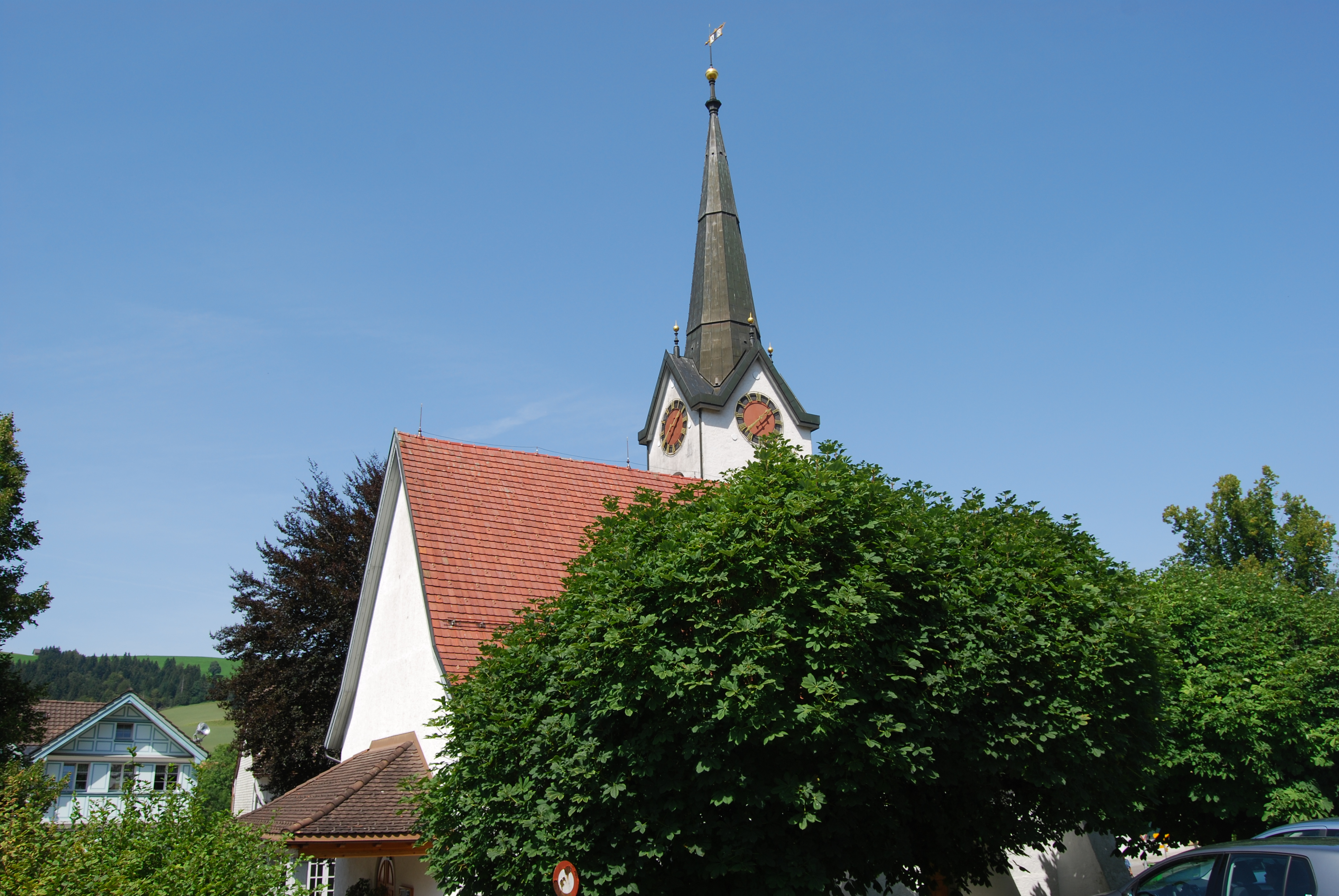 Church of Schönengrund, canton of Appenzell Ausserrhoden, SwitzerlandEsperanto: Preĝejo de Schönengrund, Kantono Apencelo Ekstera, Svislando